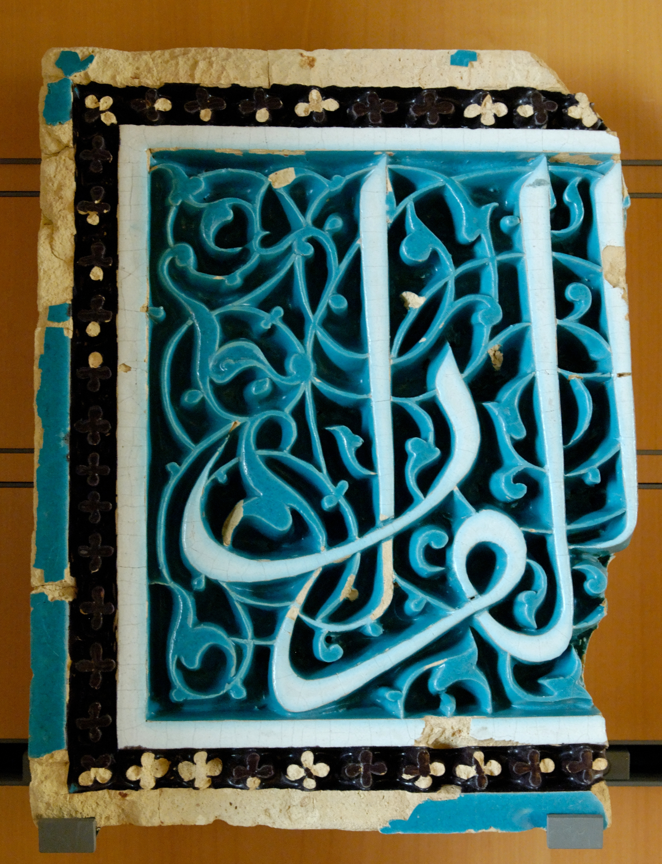 Fragment of an epigraphic ornament. Earthenware with moulded decoration under turquoise glaze, Timurid art.